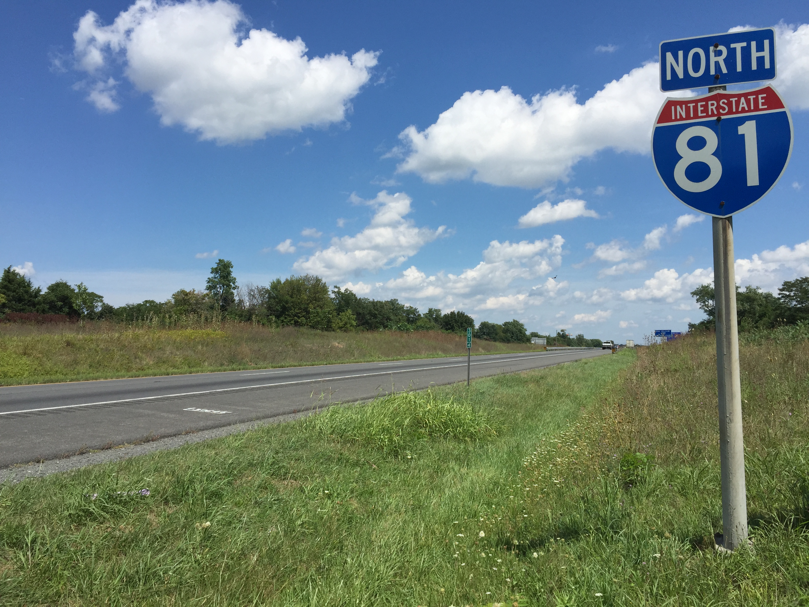 View north along Interstate 81 just north of Interstate 66 and just south of Middletown in southern Frederick County, Virginia